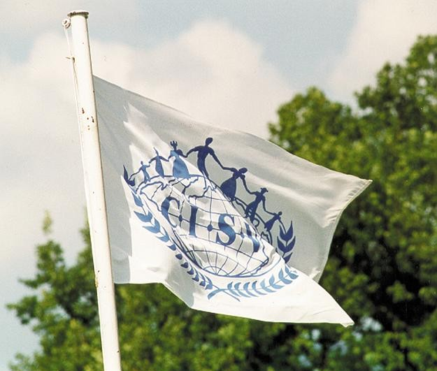 The CISV flag during a CISV program held in France in 1995.